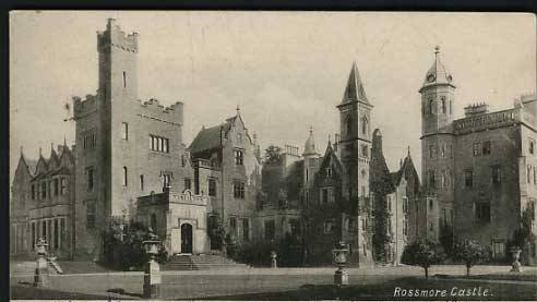 Depicted place: Rossmore Castle